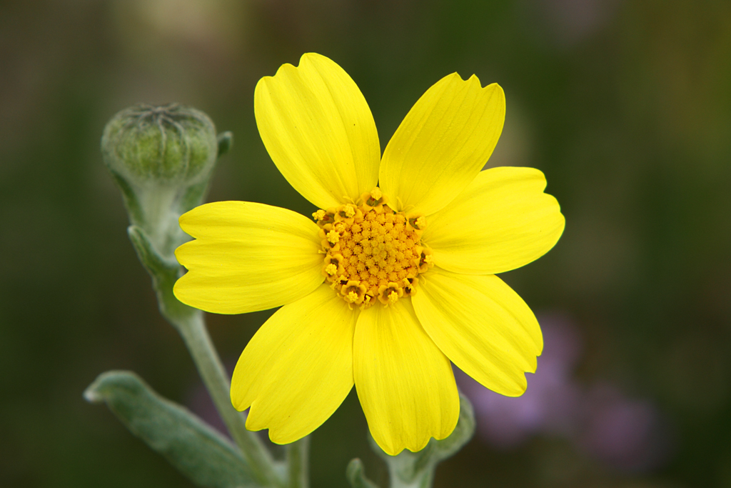 Monolopia lanceolata — Hillside daisy, Common monolopia; family Asteraceae. Observed on the Carizzo Plain, eastern San Luis Obispo County, California. Endemic to California.